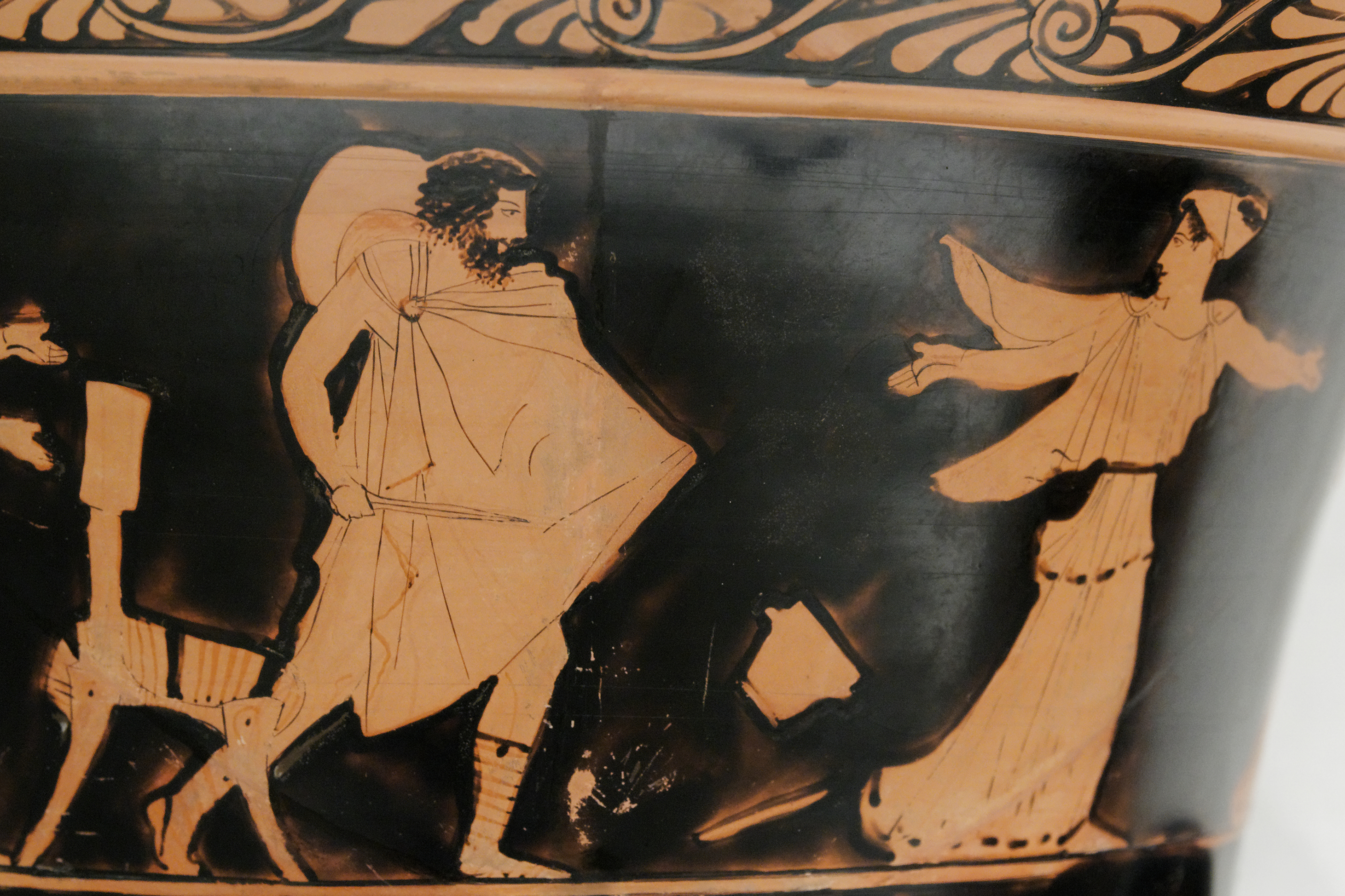 Odysseus chasing Circe. Lower tier of an Attic red-figure calyx-krater.